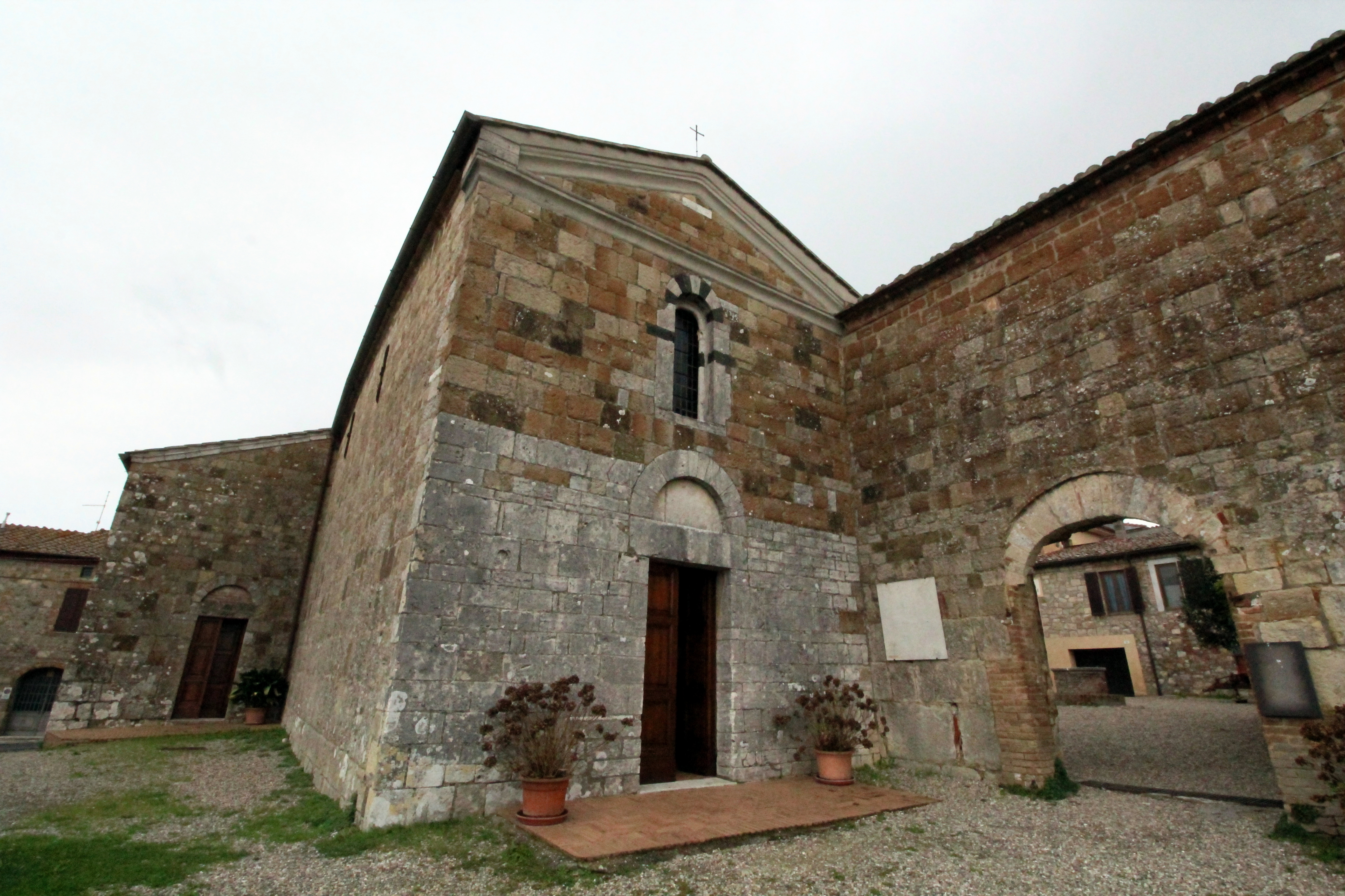 Church Santi Giusto e Clemente, Casciano, hamlet of Murlo, Province of Siena, Tuscany, Italy